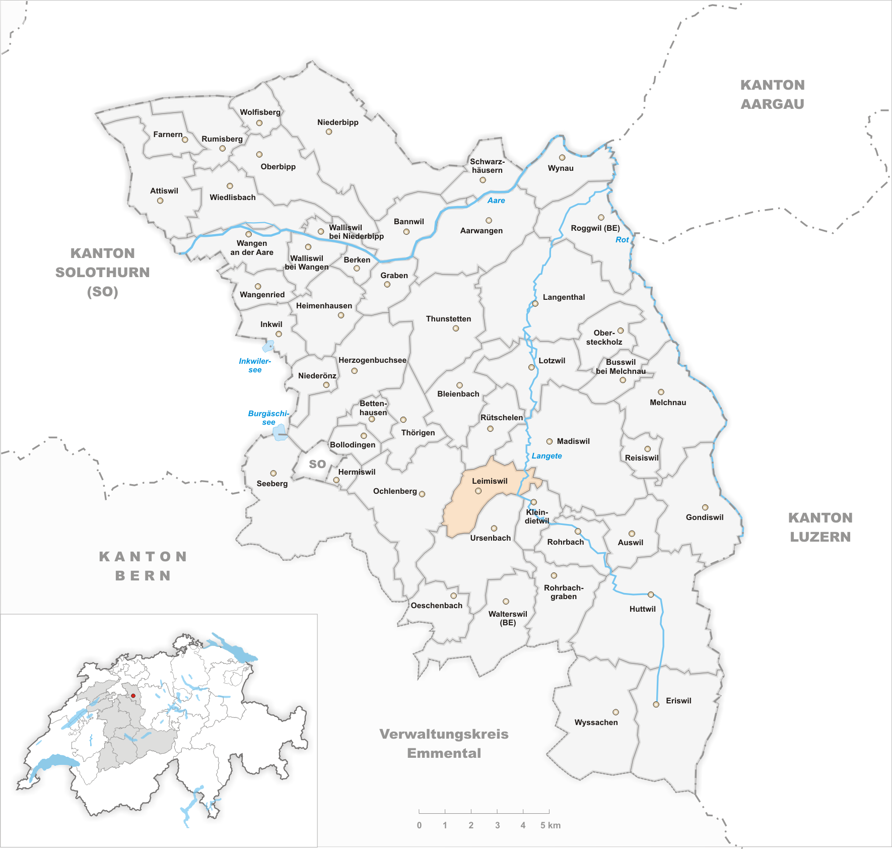 Municipality Leimiswil